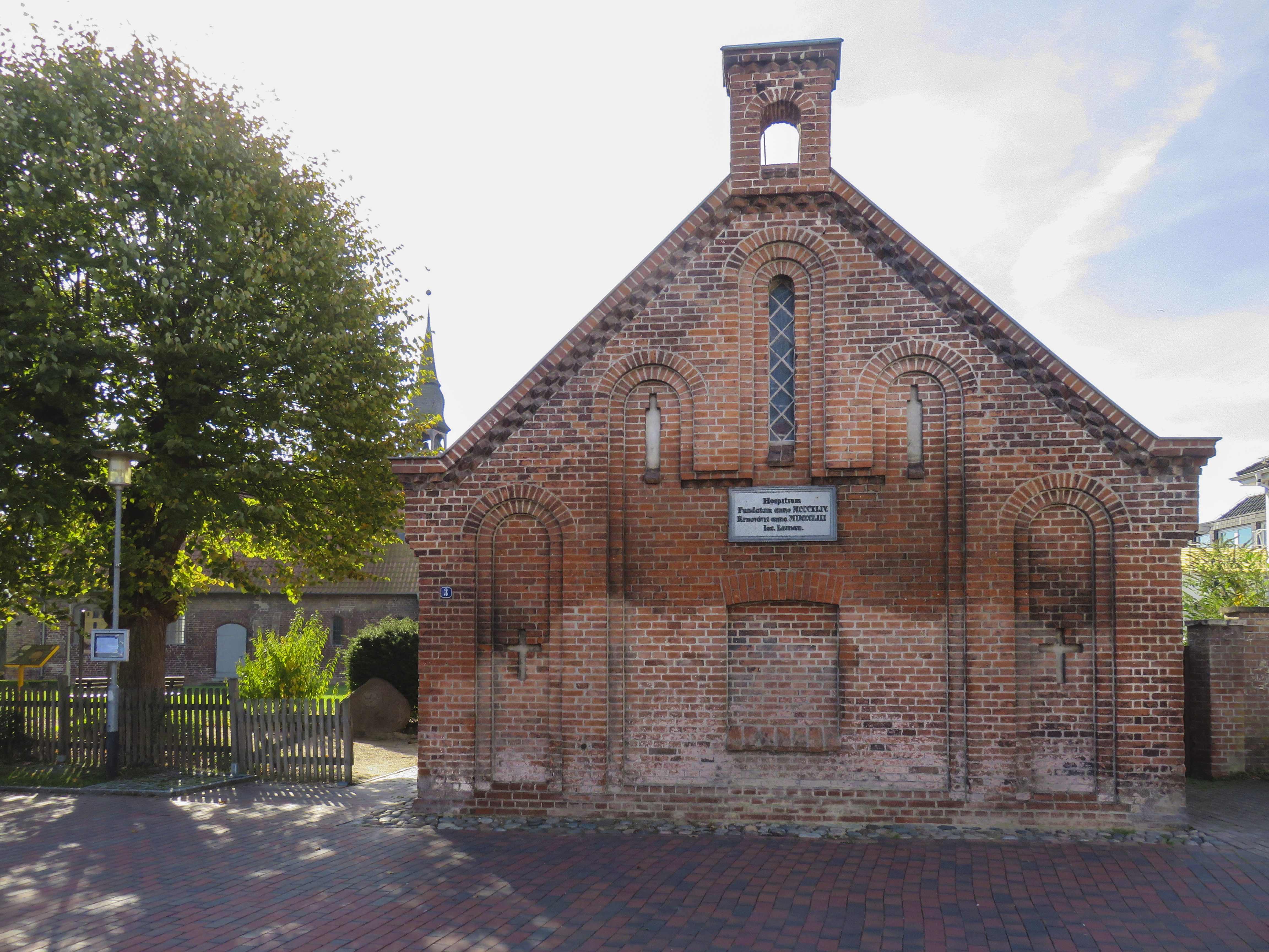 Hospital zum Heiligen Geist in Neustadt in Holstein